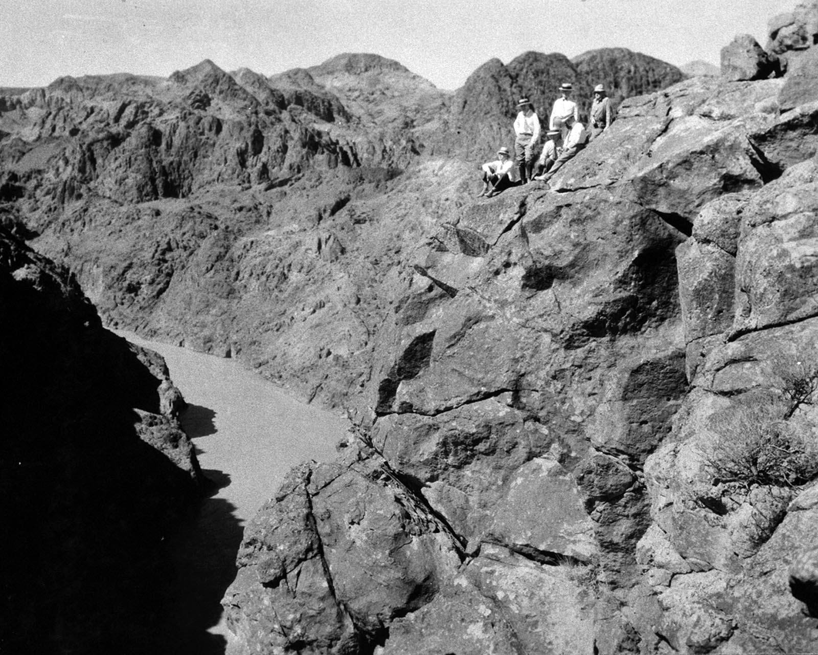 Looking downstream from Black Canyon (Hoover Dam) damsite on NV side. Group: A.J. Wiley and Louis C. Hill, Consulting Engineers; J.L. Savage, Chief Designing Engineer; L.N. McCellan, Electrical Engineer; B.W. Steele, Designing Engineer; and Walker R. Young, Construction Engineer.